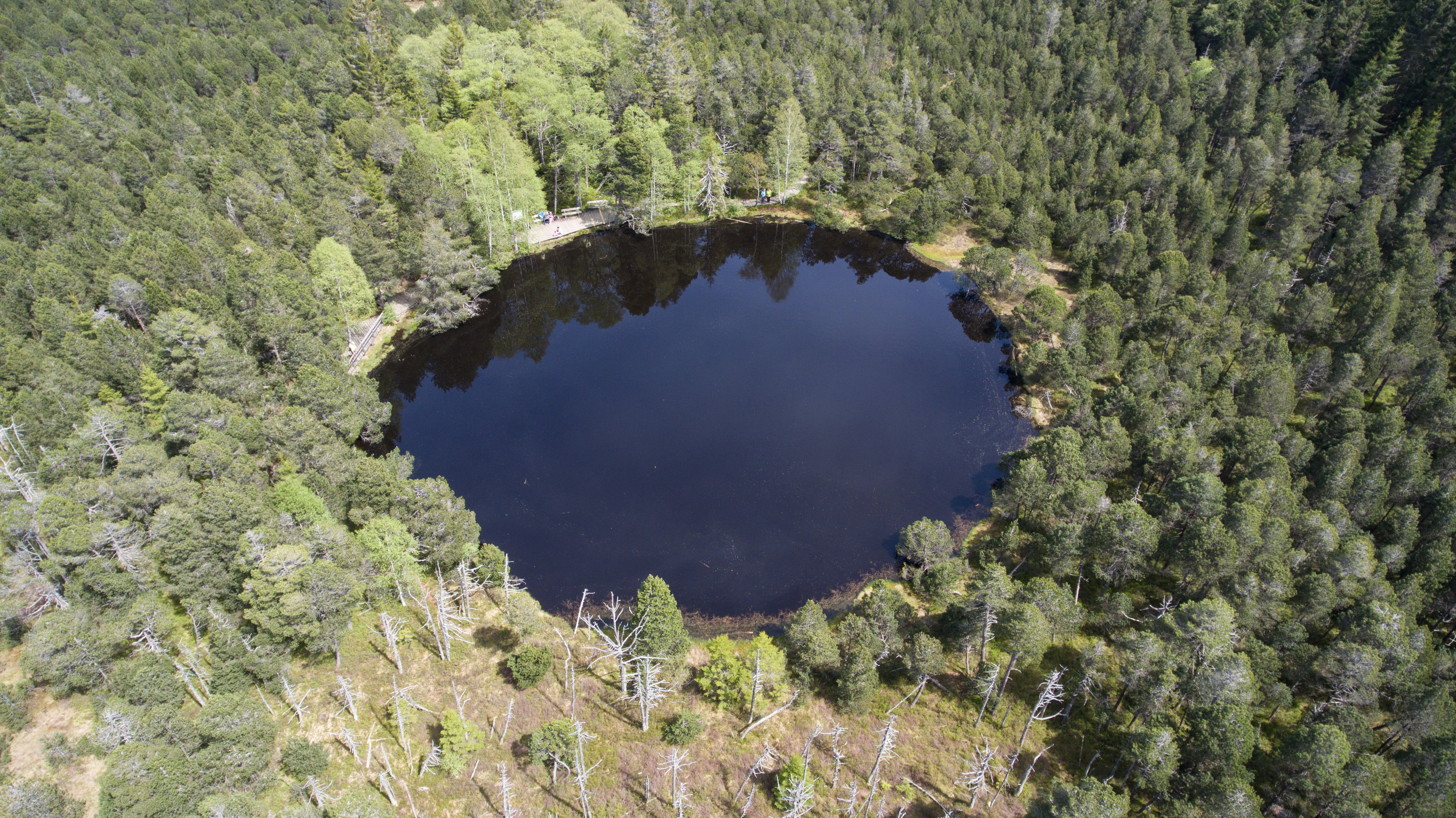 Aerial view Blindensee